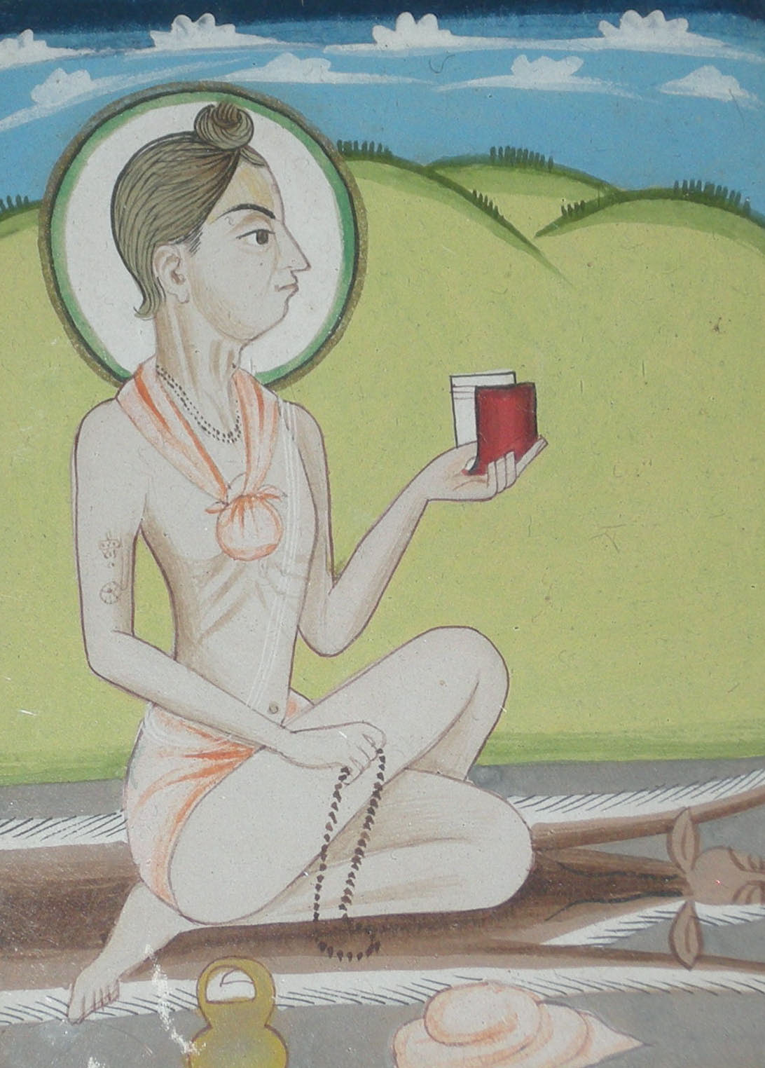 Painting of Swaminarayan in the form of Nilkanth Varni